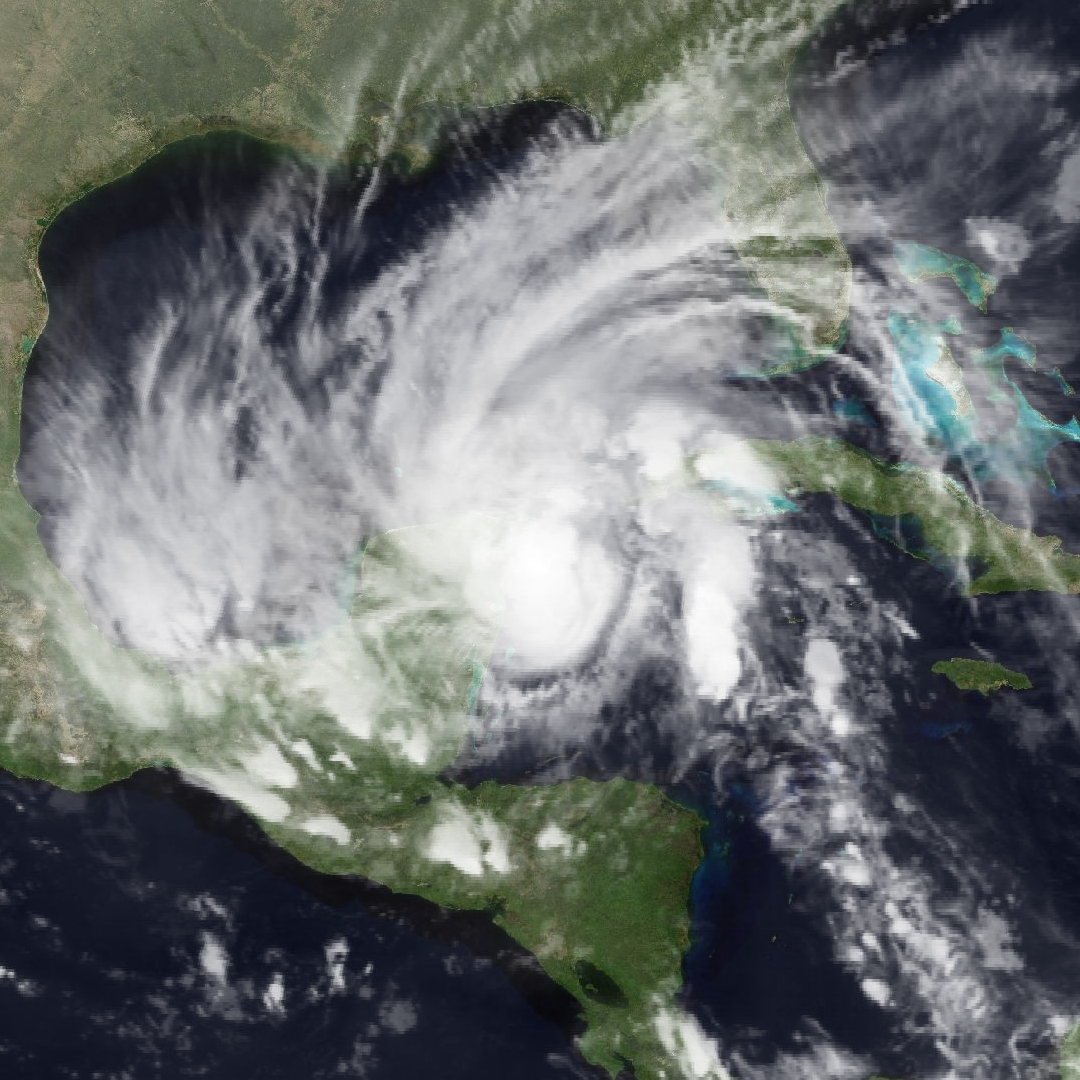 Tropical Storm Keith at peak intensity in the Yucatan Channel on November 21, 1988